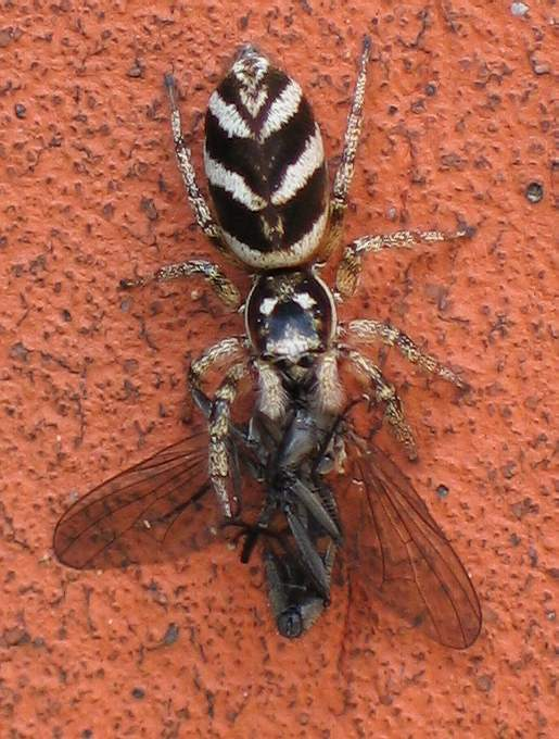 Salticus scenicus with a fly fallen a prey (possibly Fannia canicularis) to the spider in northern Germany.